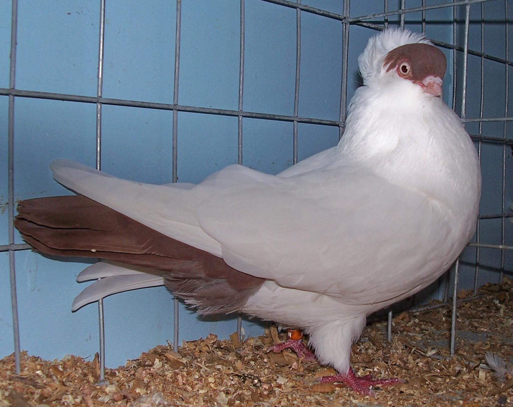 A Helmet pigeon at the Queensland State Show 2008. This bird is a recessive red crested old cock owned by Robin McCoombes.